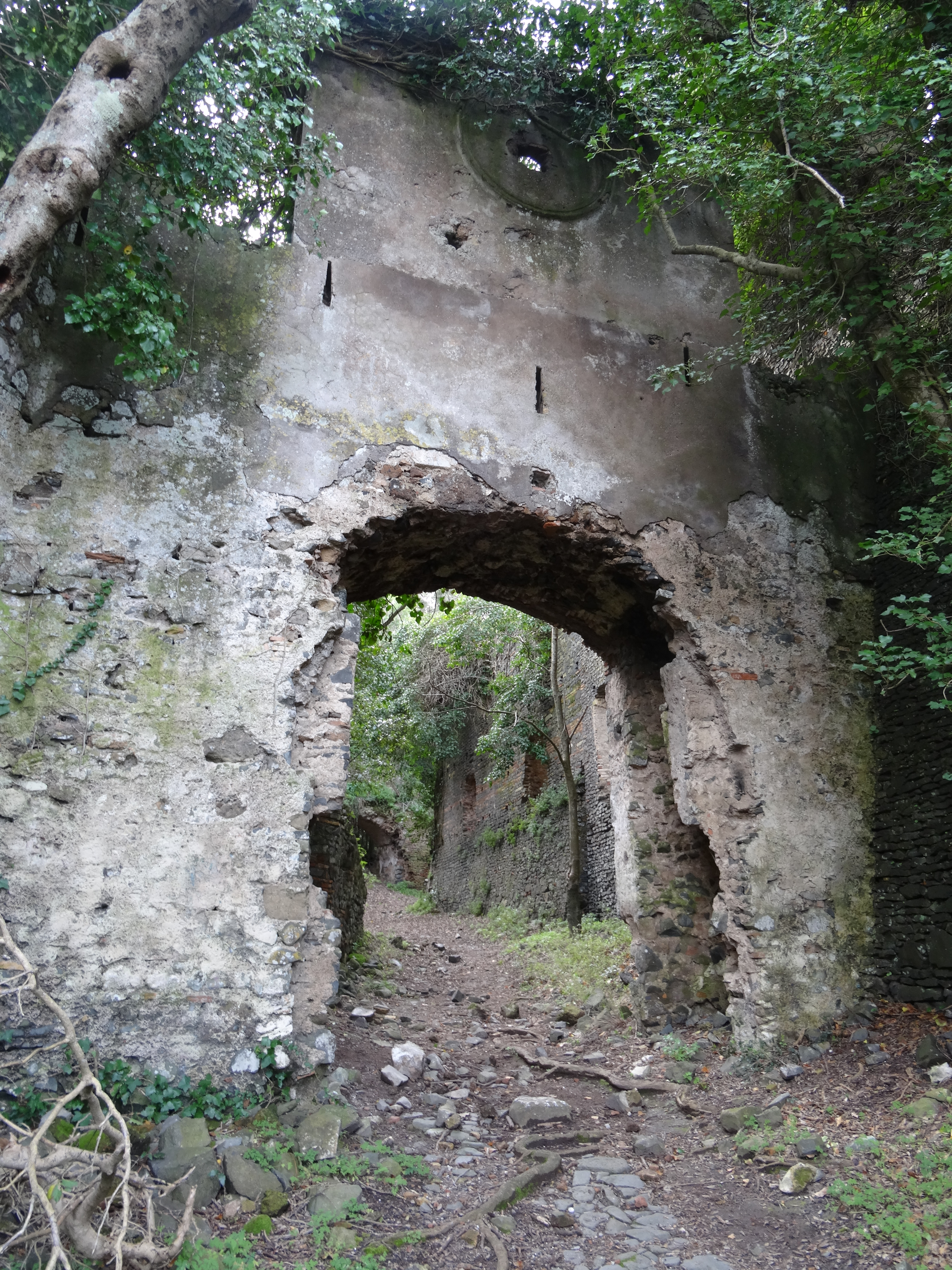 Galeria Antica